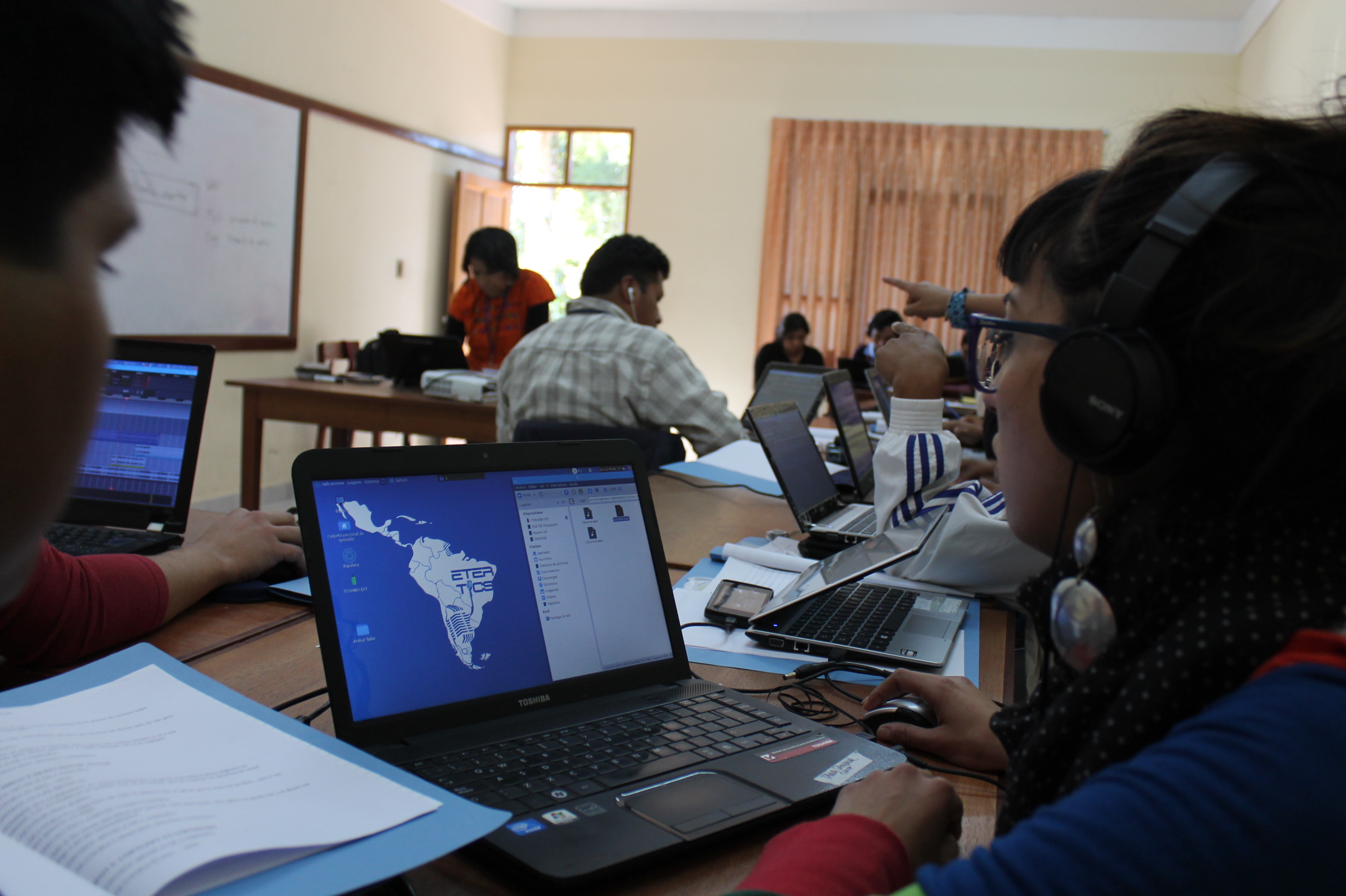 Participante del I Encuentro de Radios Comunitarias y Software Libre en Cochabamba aprendiendo a usar GET.